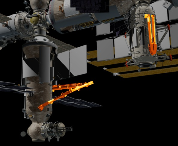 Screencap I edited (darkened remainder of station) from NASA 3D model. European Robotic Arm and spare joint were colored orange for contrast.